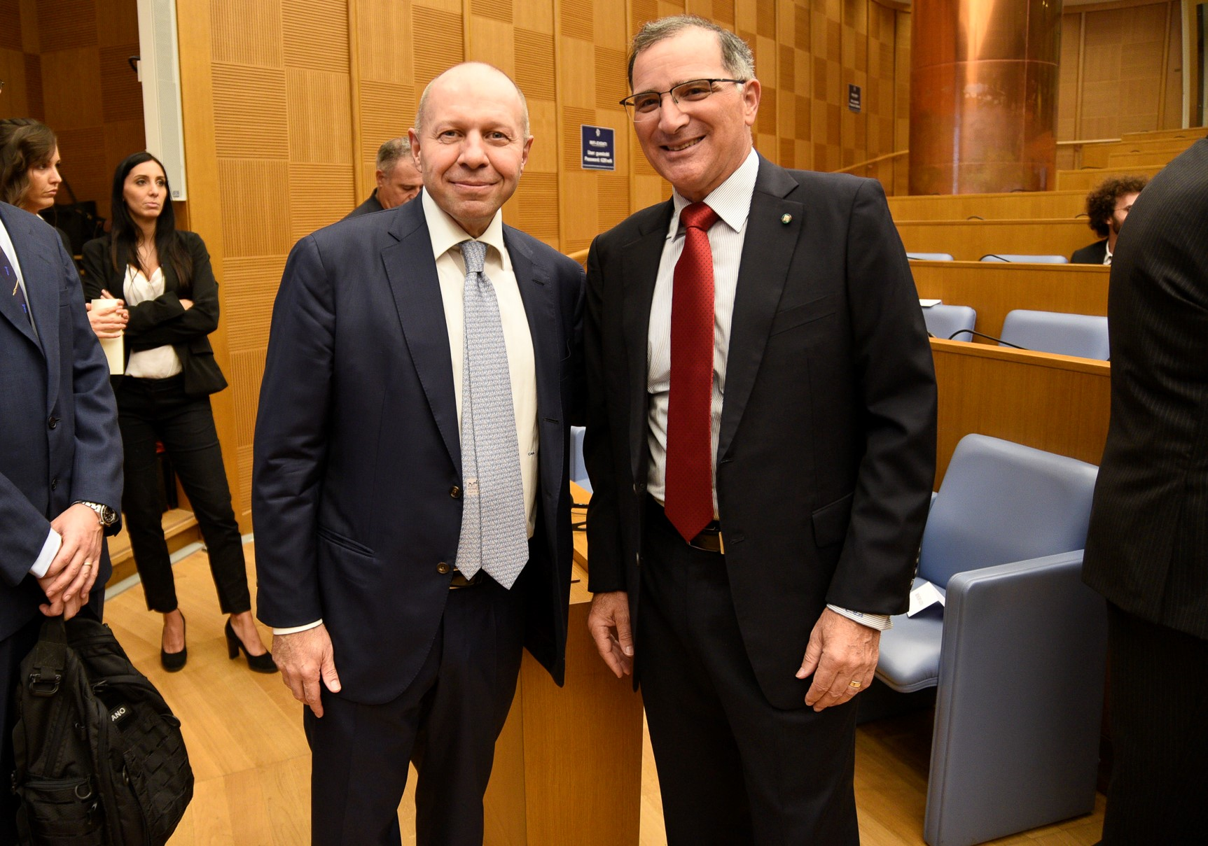 CORRADO MARIA DACLON SECRETARY GENERAL ITALY-USA FOUNDATION, CURTIS SCAPARROTTI SUPREME COMMANDER OF NATO